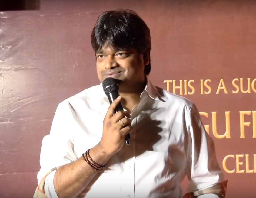 Indian filmmaker Harish Shankar addressing the gathering at the success meet of the 2018 Indian bilingual film Mahanati (Telugu)/Nadigaiyar Thilagam (Tamil)